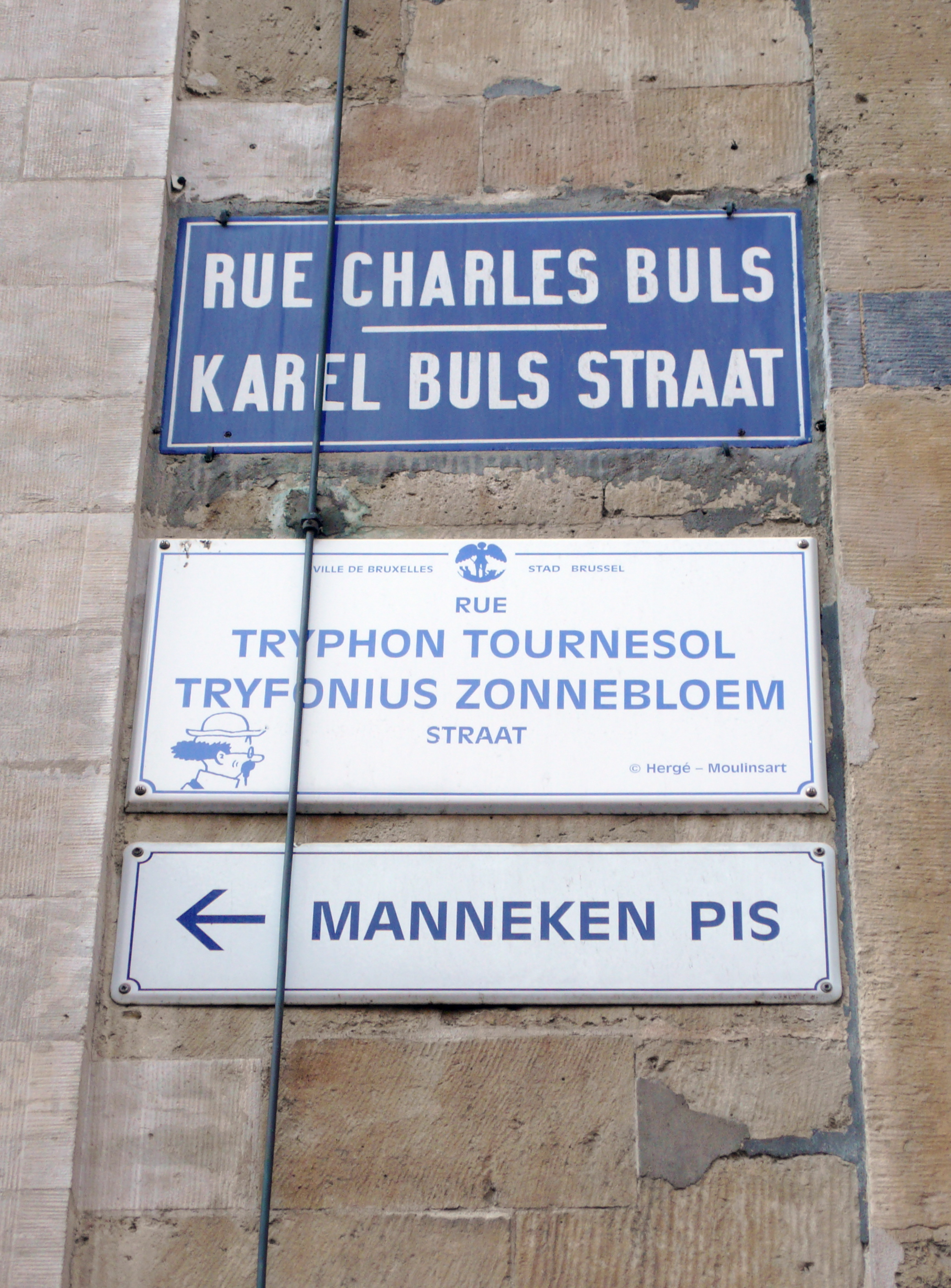 Tryphon Tournesol Street / Tryfonius Zonnebloem straat